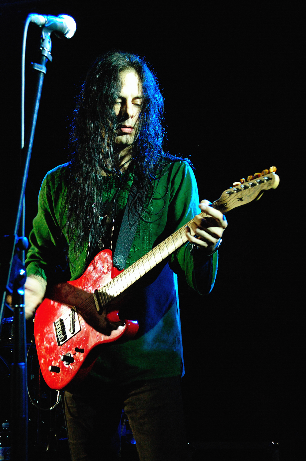 Richie Kotzen performing with heavy metal band X-roads, in 2009